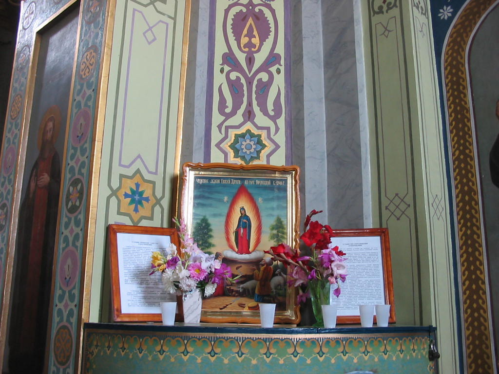 Pochayiv monastery, western Ukraine.